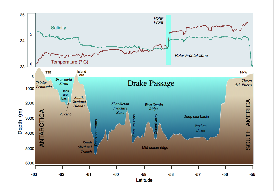 Profile through the Drake Passage between South America and the Antarctic Peninsula. Morphological main features in the deep sea are shown like the mid ocean ridge (West Scotia Ridge), separating the Antarctic plate from the South American plate. The South Shetland Islands belong to an island belt, resulting from the subduction of the Pacific plate below the Antarctic plate. In the back arc basin, i.e. the Bransfield Strait, submarine volcanoes have been found. The upper graph shows salinity (parts per thousand) and temperature in surface water measured along a cruise track. The Polar Front is an oceanographic feature which is characterized by an abrupt change in temperature by about one degree.